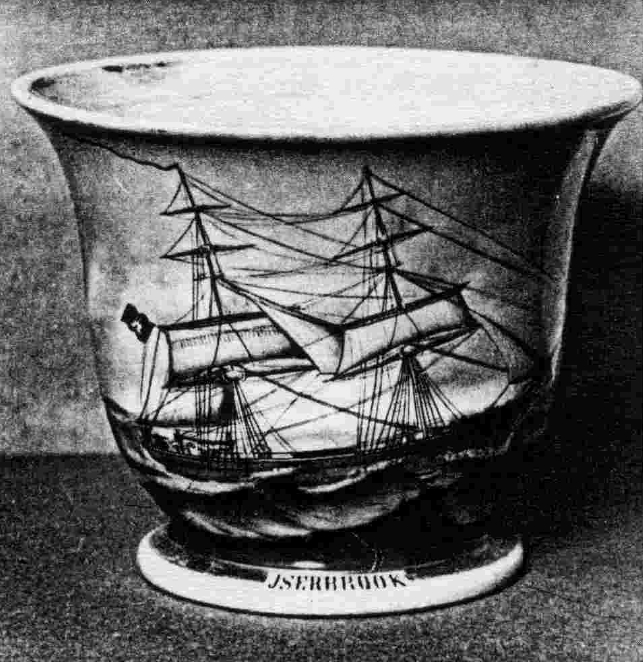 Sailor Mug with the brig Iserbrook built in 1853 by Joachim Eduard von Somm for JC Godeffroy & Son. From the collection of Carl Reimers in Quickborn from the archives of the German Shipyard